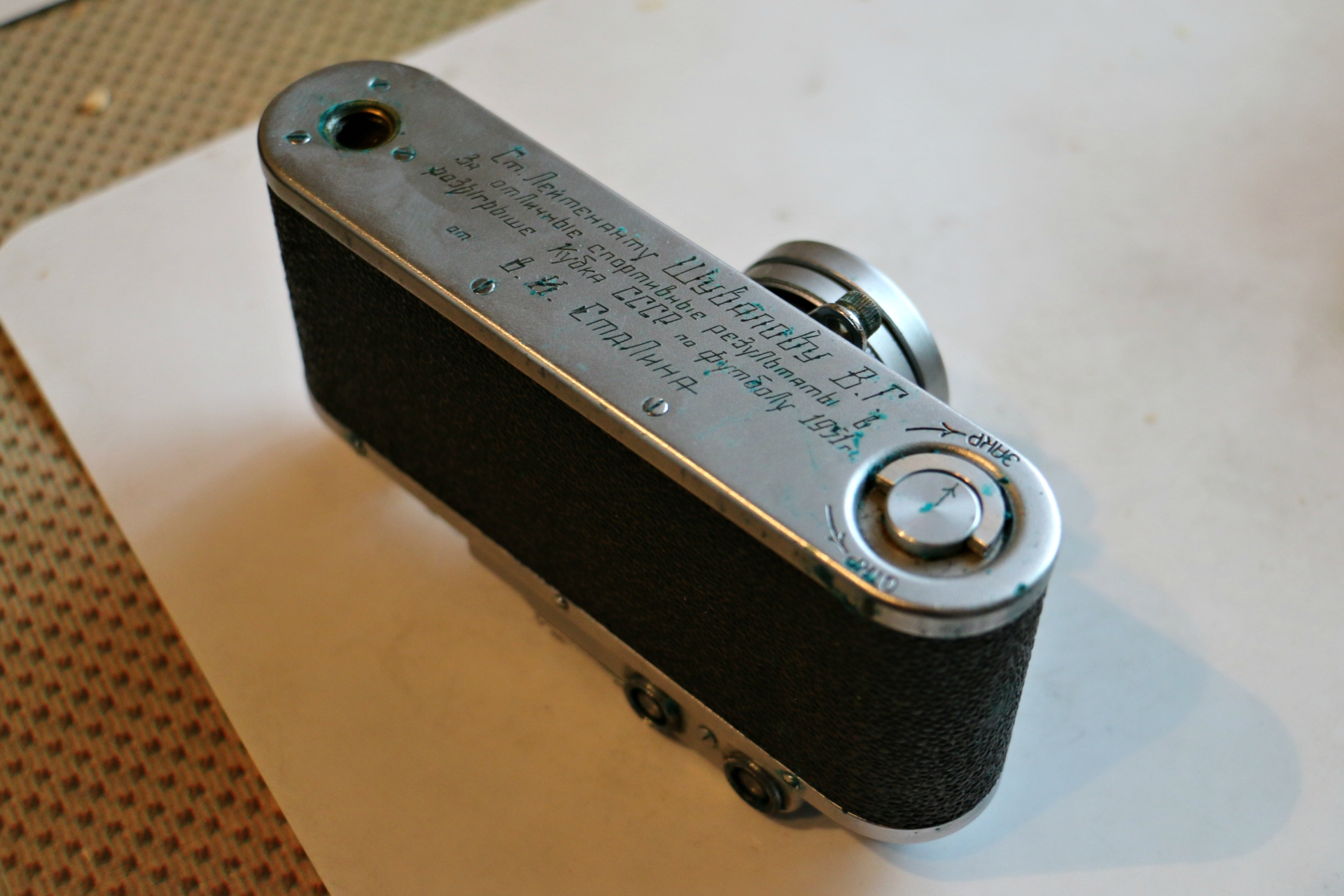 Named camera donated by Vasily Stalin to Soviet hockey player Viktor Shuvalov